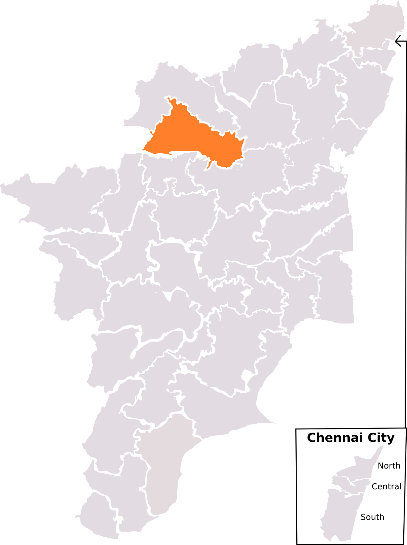 Lok Sabha Election map labeling each constituency for individual pages for Tamil Nadu after delimitation starting 2009 election. Map is based on ECI drawn map from